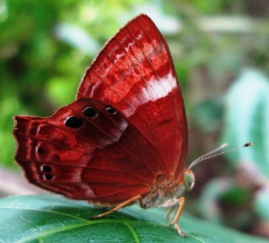 Abisara bifasciata suffusa